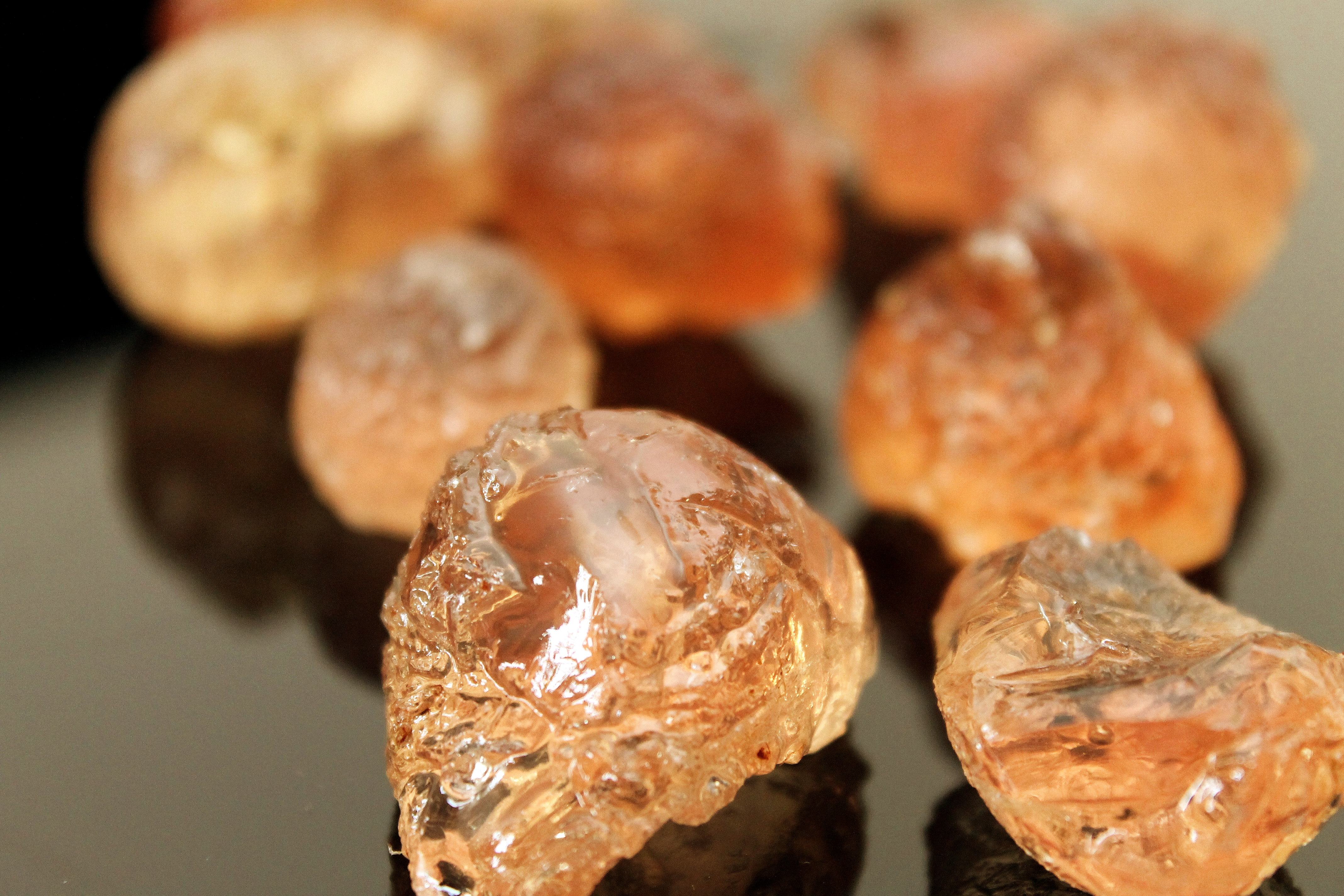 This photo shows pieces of raw Gum Arabic. The photo is intended to display the shape, texture and transparency of Gum Arabic.